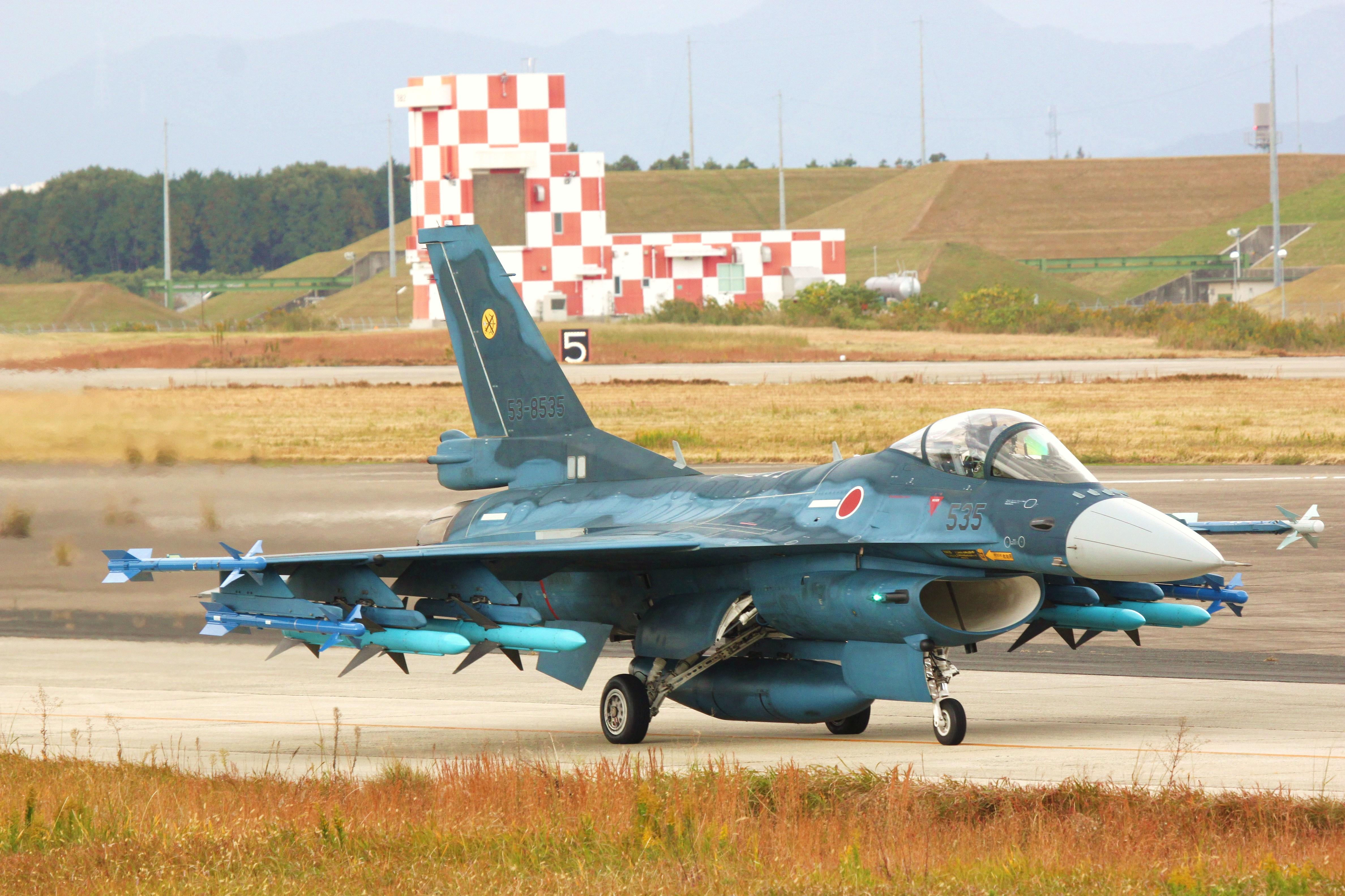 A 6 Hikotai F-2A fighter taxies out at its base of Tsuiki in southern Japan. Its wings are groaning under the weight of AIM-7 Sparrow AAMs and AIM-9 Sidewinder SRAAMs.